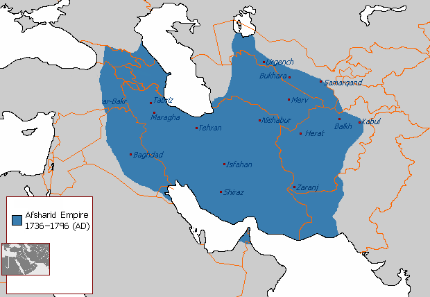 Map of the Afsharid Empire at its greatest extent, in 1741-1743.